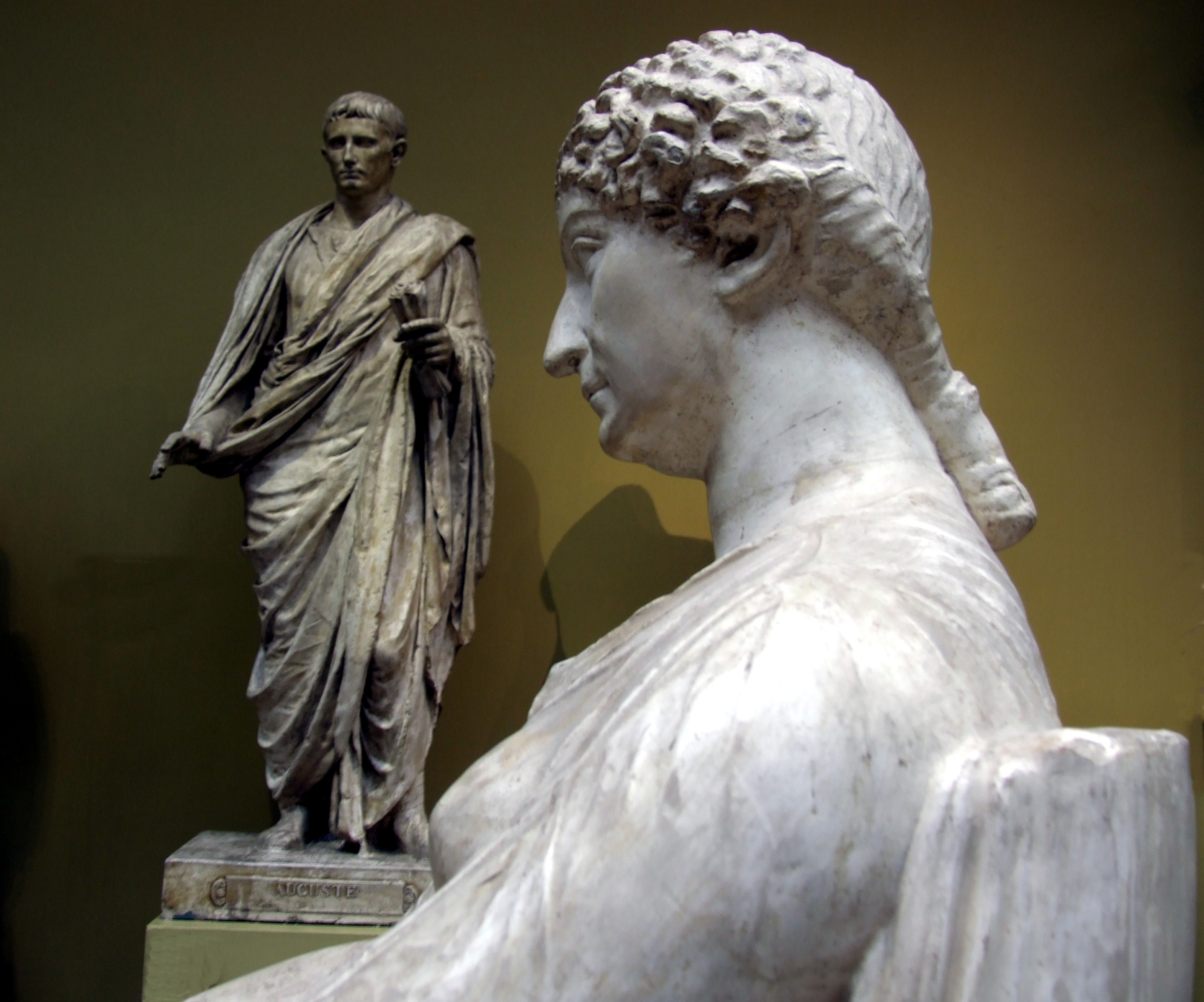 Agrippina Minor. Plaster cast in Pushkin Museum. The original was found in the surroundings of Rome, is part of the Farnese Collection, and is now in the National Archeological Museum, Neaples.